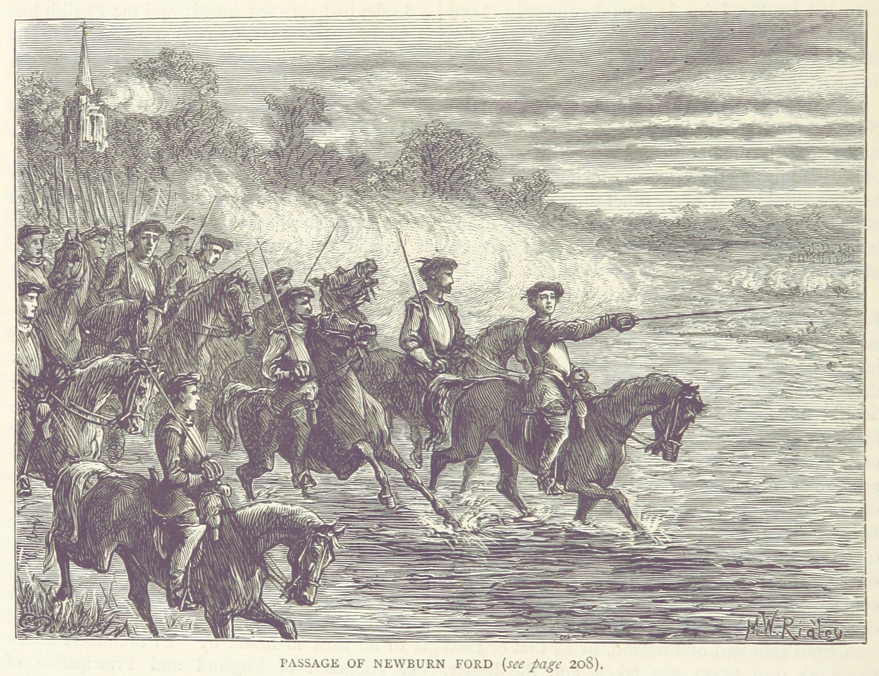 The Scots crossing the ford at the 1640 Battle of Newburn